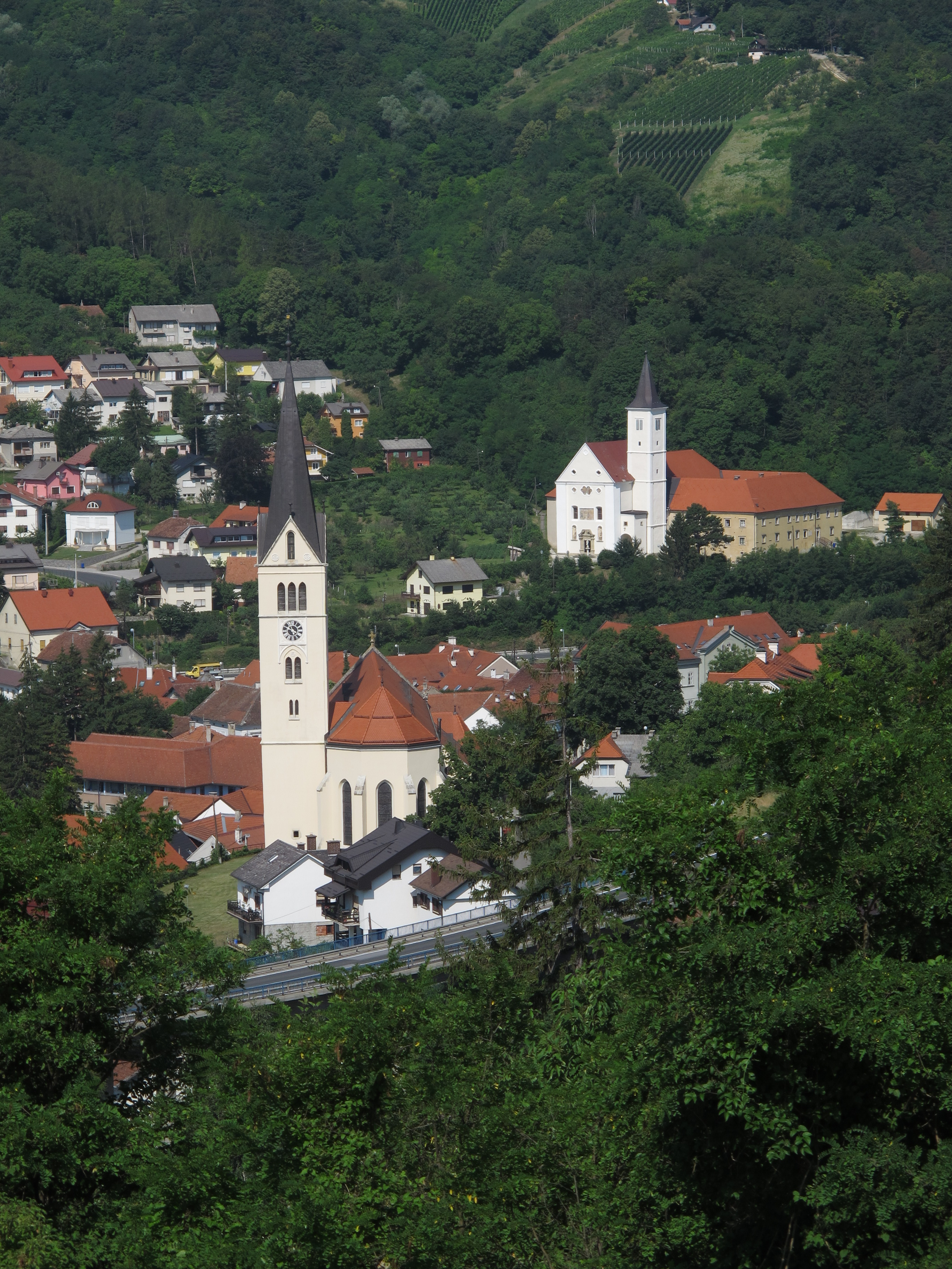 Krapina